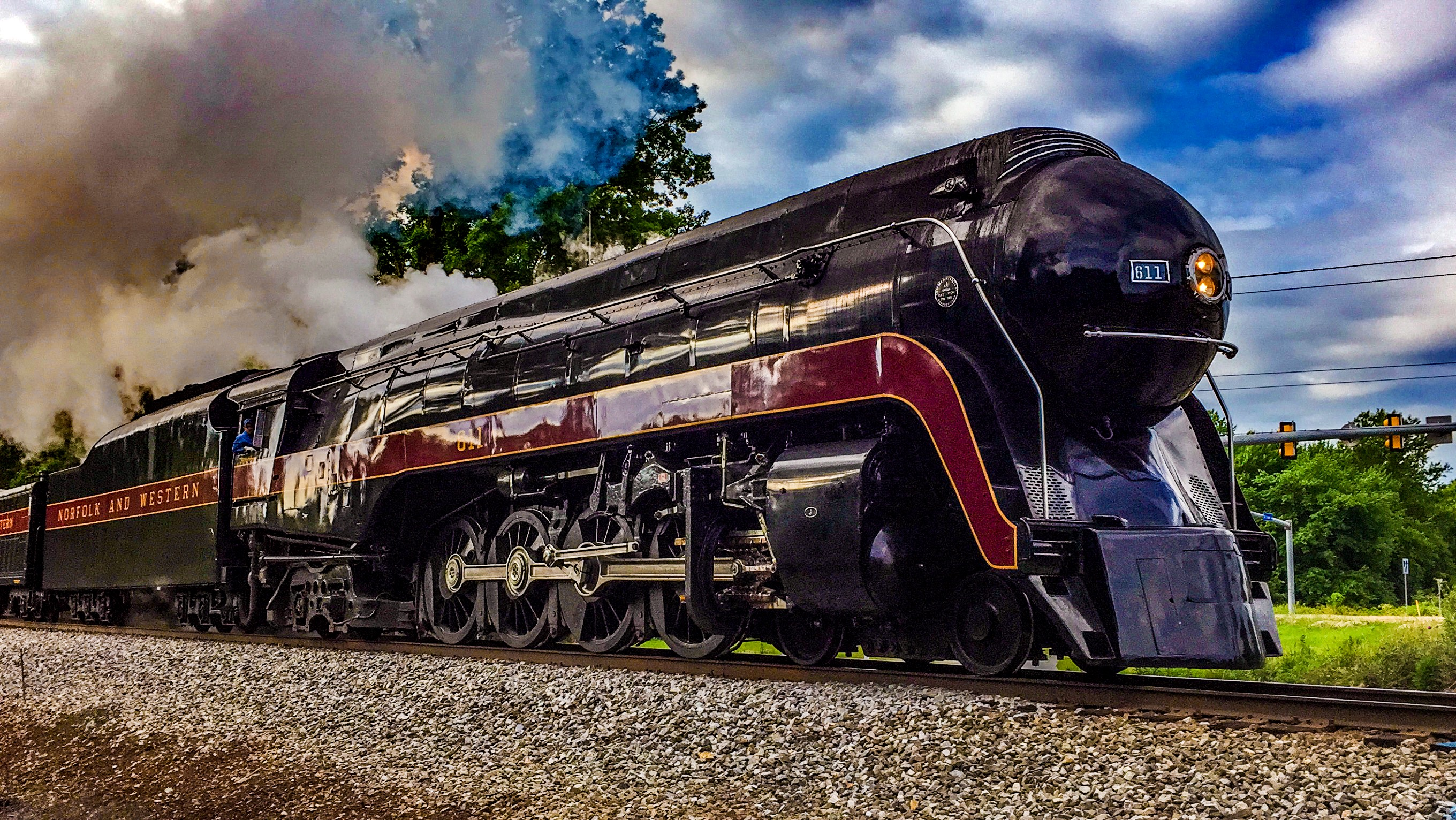 Norfolk & Western J Class 611 charging through Rixlew Lane grade crossing on June 7th, 2015.